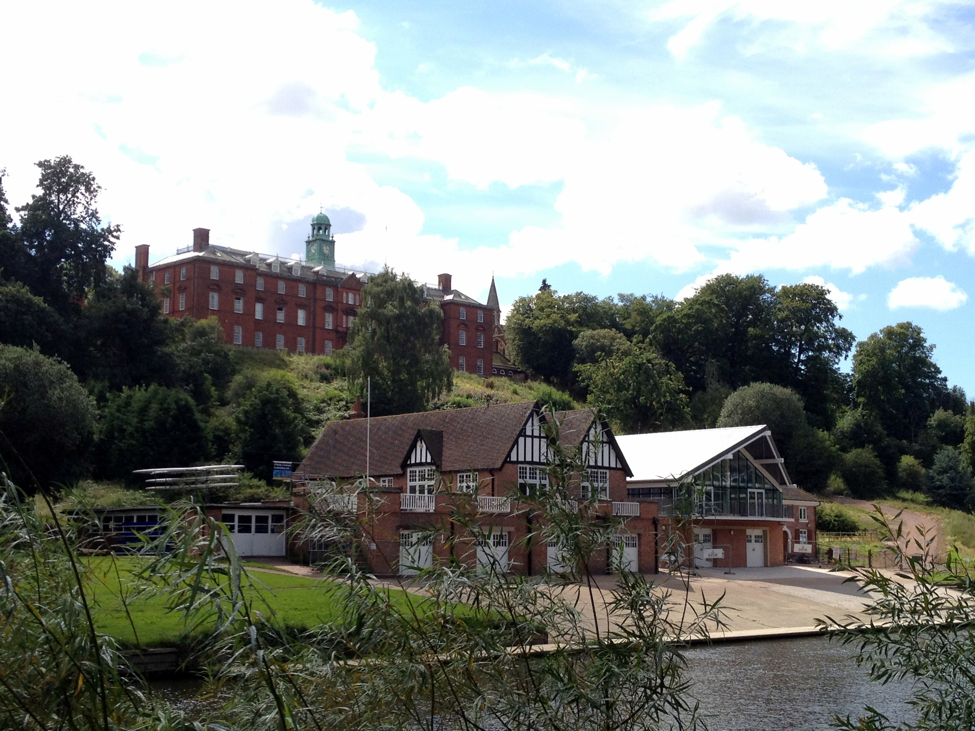 The main building of Shrewsbury School and its boathouse, Shrewsbury, UK